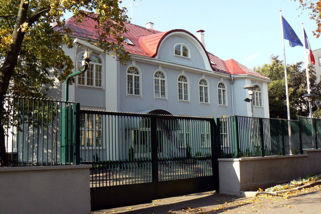 Embassy of France in Tallinn, 20 Toom-Kuninga Street